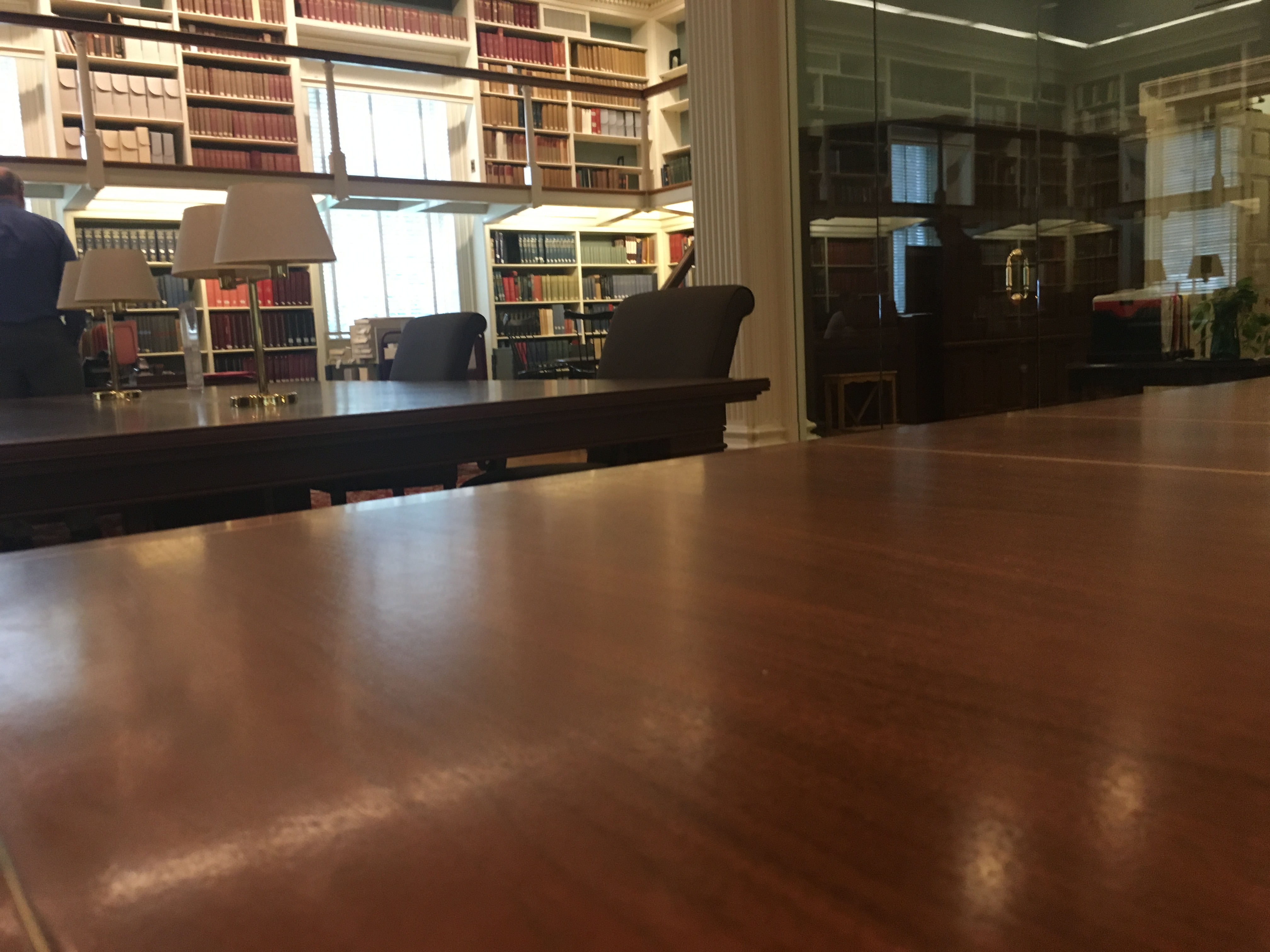 Portion of the American Philosophical Society Library Hall reading room, as seen from the perspective of a researcher in May 2019.